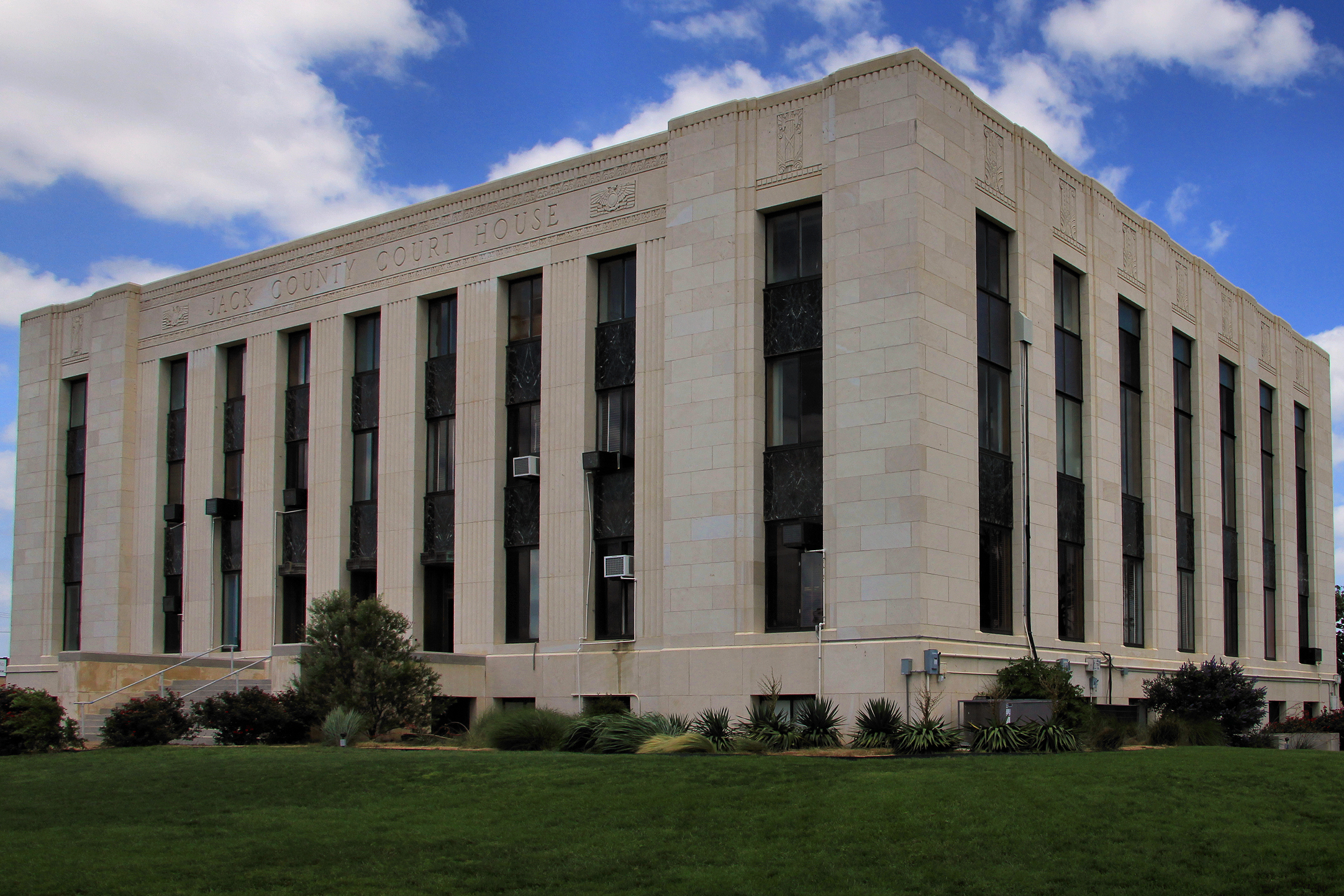 The Jack County Courthouse in Jacksboro, Texas, United States. The courthouse was designated a Recorded Texas Historic Landmark in 2013.